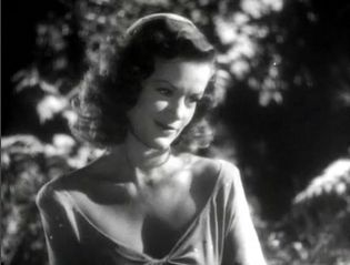 Cropped screenshot of Simone Simon from the trailer for the film The Curse Of The Cat People.